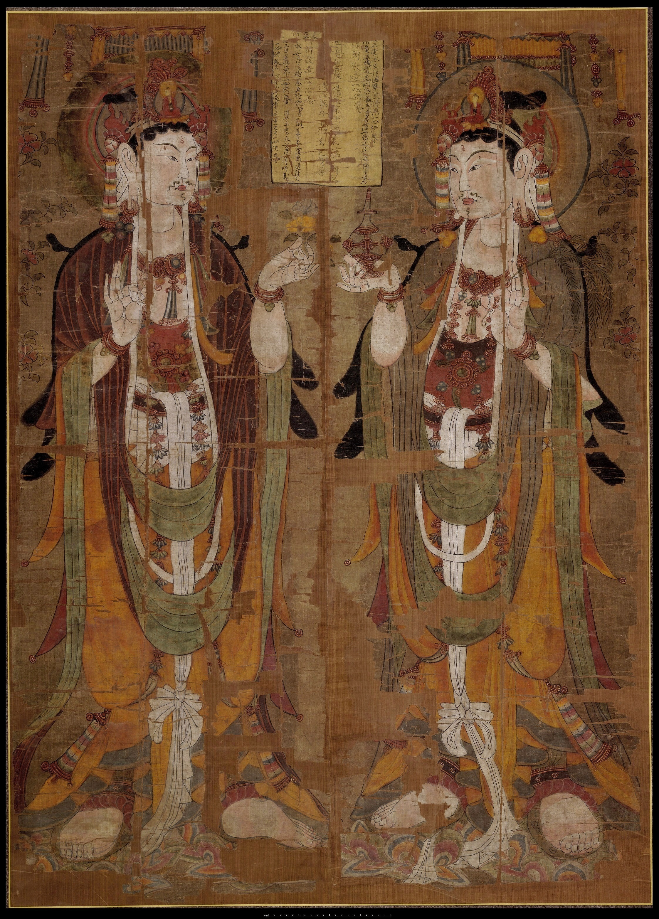 Two Avalokitesvaras, Tang dynasty, mid-9th century, Ink and colours on silk, 147.3 cm X 105.3 cm, British Museum, London